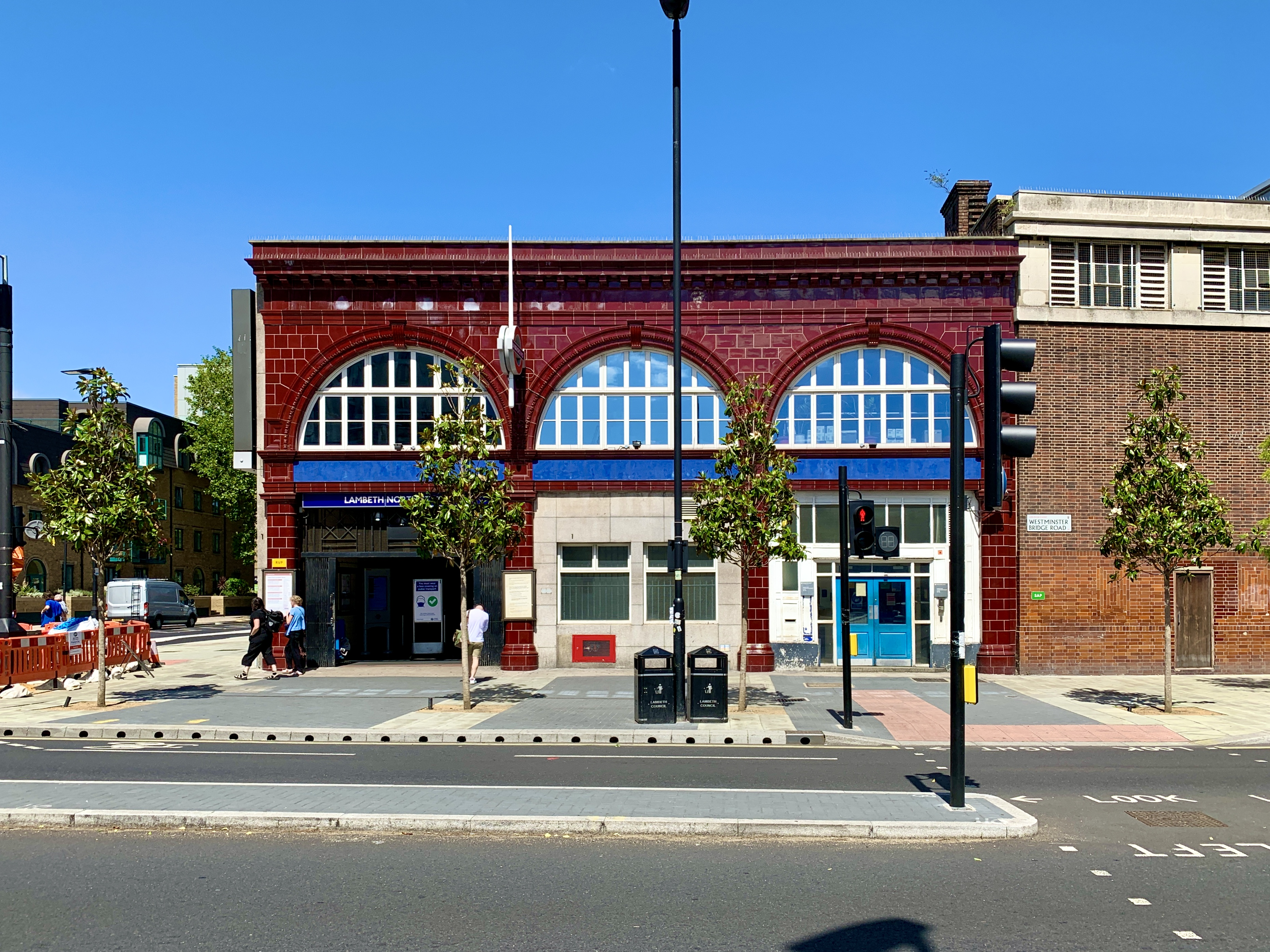 Entrance of Lambeth North tube station. Taken during my Northern Line Tube Walk.